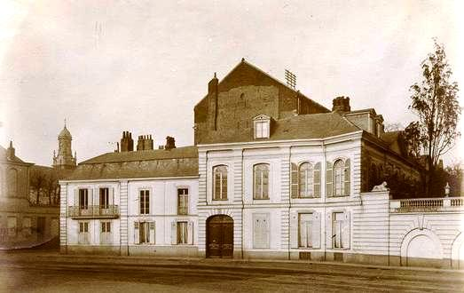 Hotel Virnot de Lamissart, façade de l’Esplanade 17,2 x 12,2 cm.